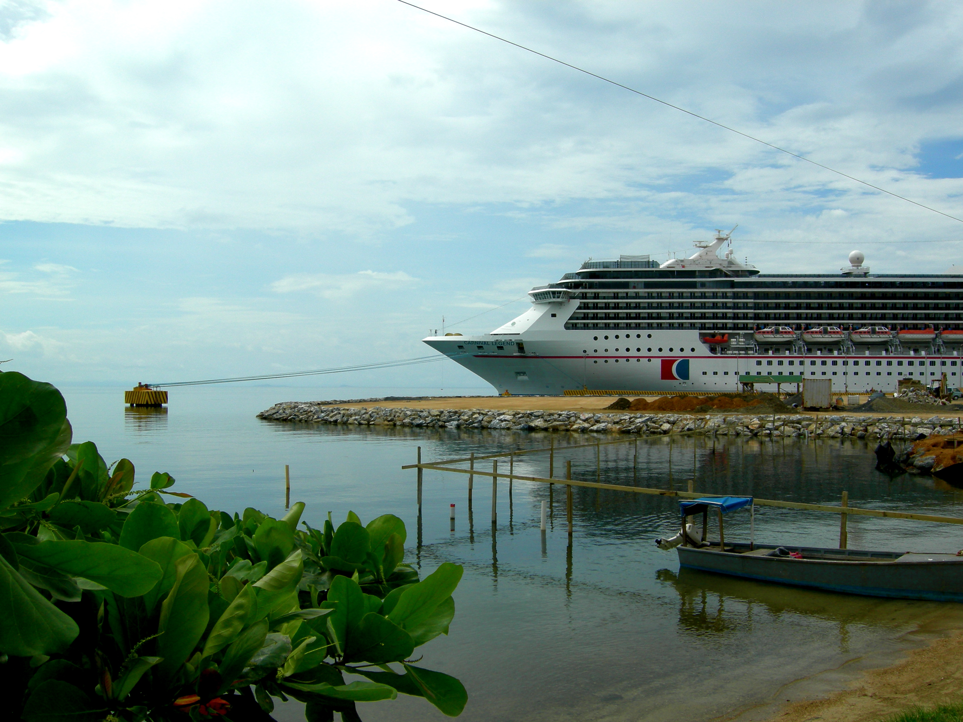 Cruiseship Carnival Legend in Roatán, Honduras